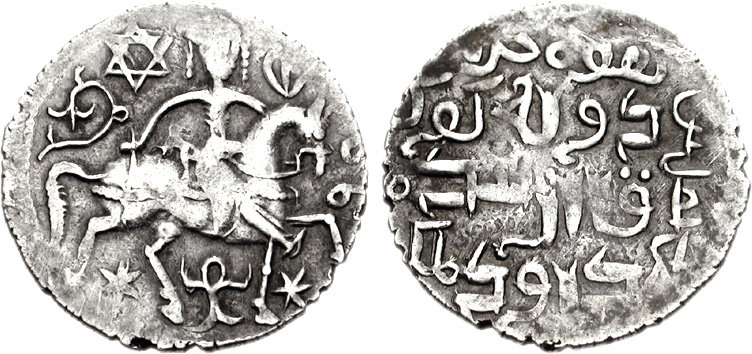 GEORGIA. David VI Narin. 1245-1293. AR Dirhem (2.66 g, 11h). Tiflis mint. Dated Year 467 of the Paschal Cycle (AD 1247). King on horseback right; foliage to left, Star of David and royal monogram above, stars and obscure shape below horse; date in Georgian to right / “By the power of God/Dominion of Kuyuk/Qa’an-Slave/Da’ud, King” in Arabic in four lines across fields; “Struck in Tiflis in Arabic to right. Kapanadze 84; Lang 16 var. (king left). Good VF, lightly toned, areas of flat strike.